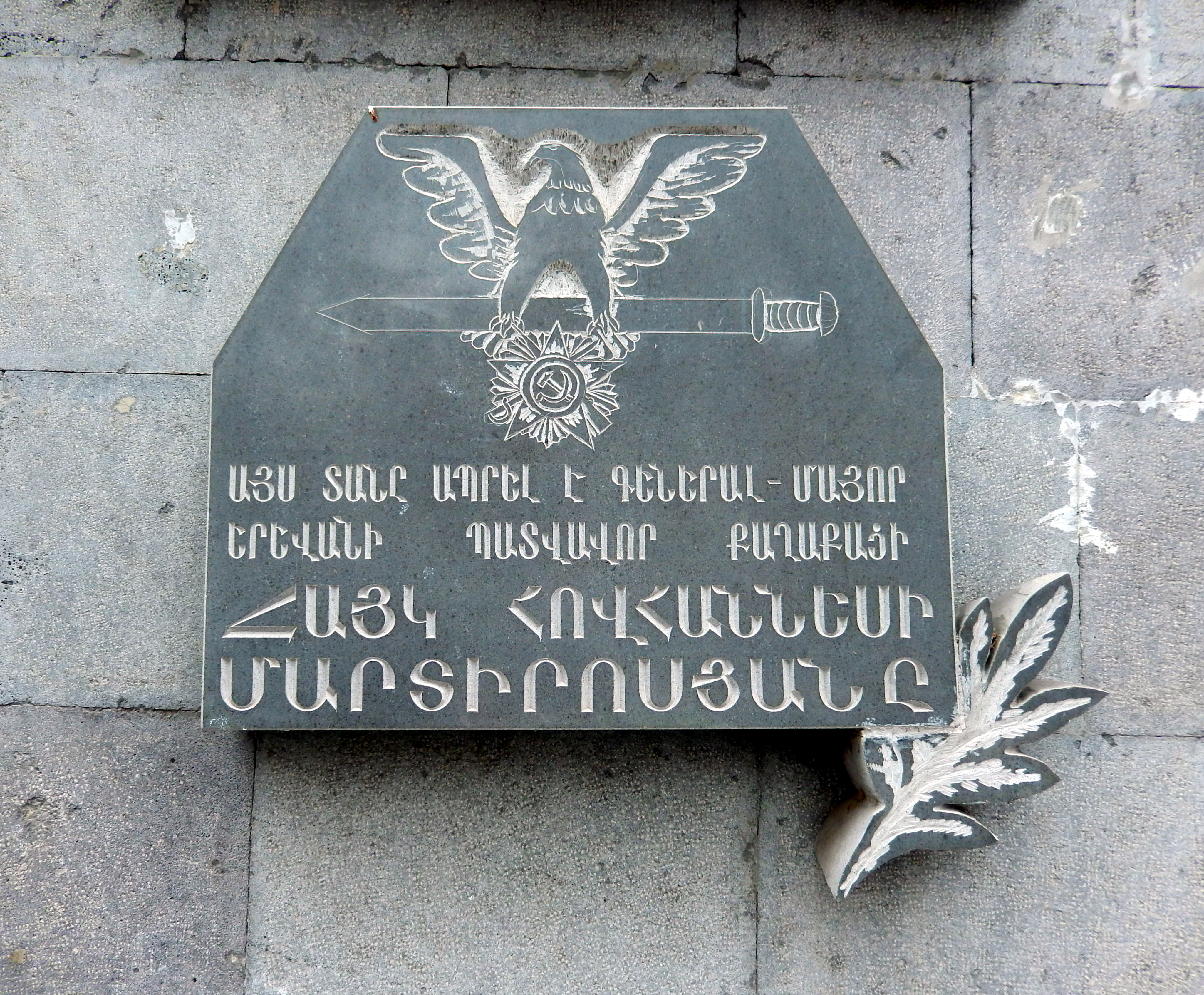 Hayk Martirosyan's plaque, Yerevan